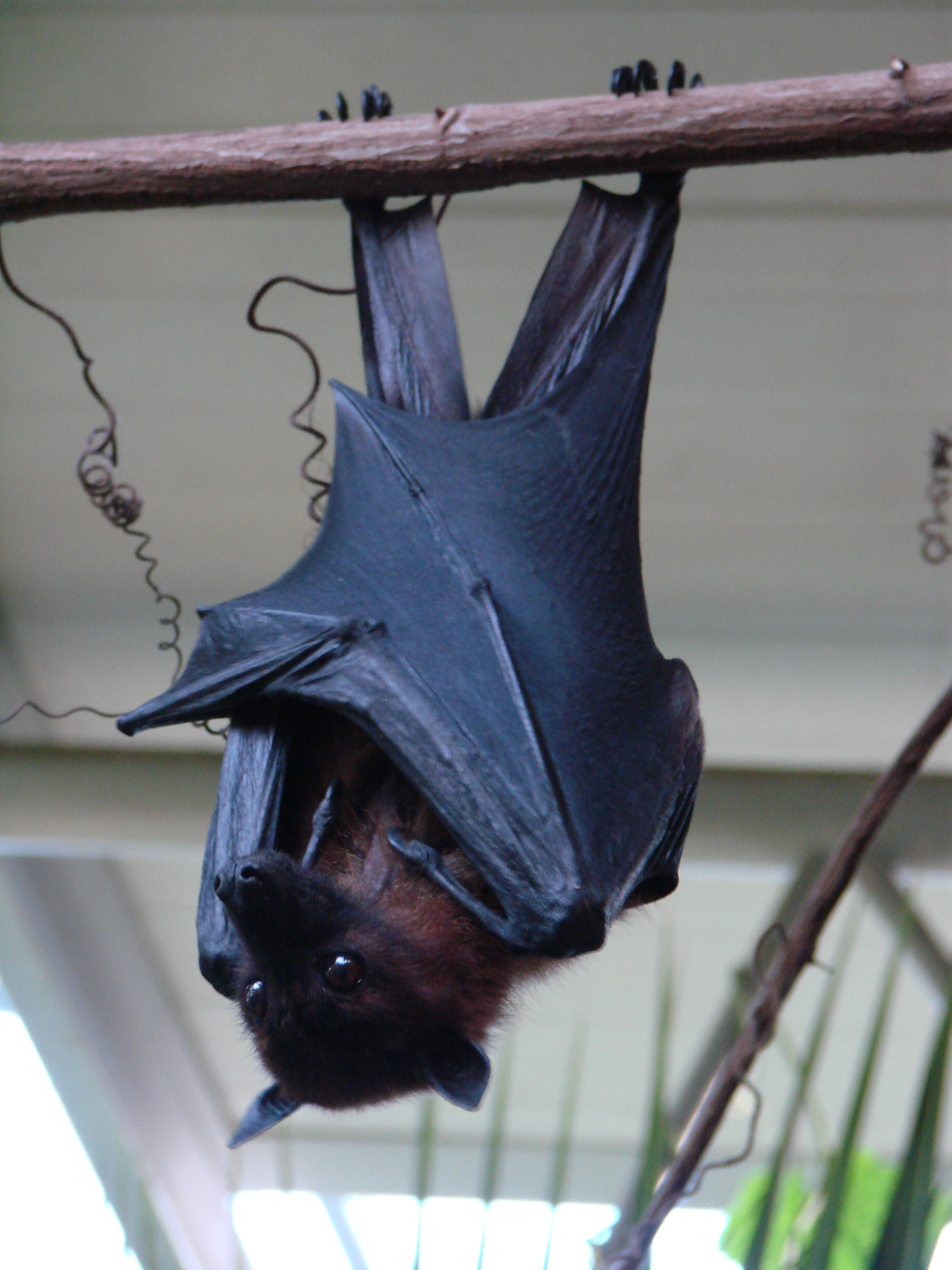 Animal species: Indian Flying-fox (Wrocław zoo)